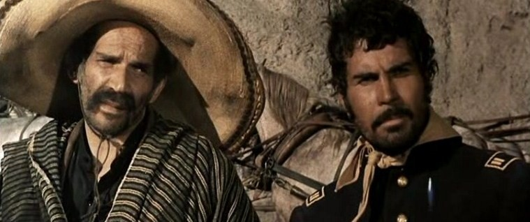 José Manuel Martín (left), with co-star Jose Canalejas, in the Tonino Valerii film Per il gusto di uccidere (1966)